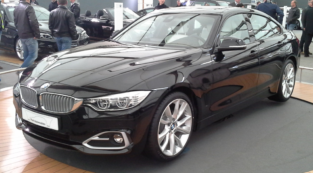 BMW 4-Series F36 Gran Coupé photographed at the 2014 Avignon Motor Festival in Avignon, France.